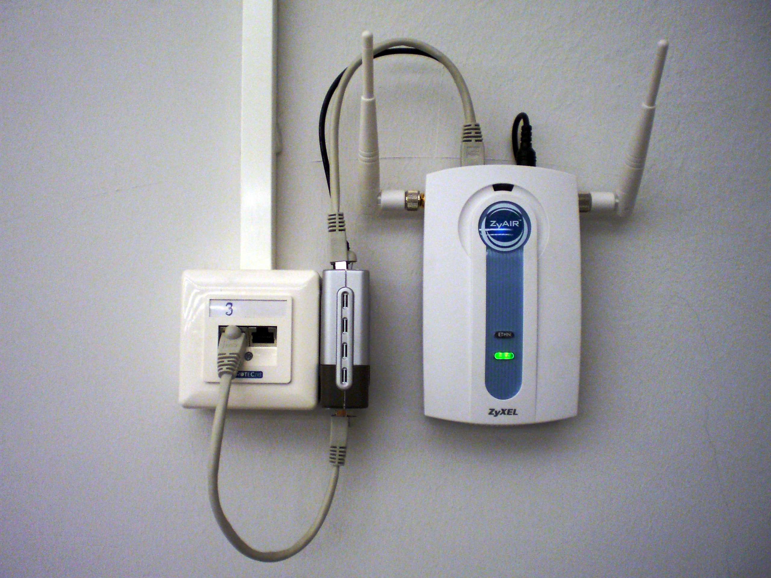 Image from a ZyXEL ZyAIR G-1000 Acces Point, powered by a D-Link DWL-P50 PoE-Splitter